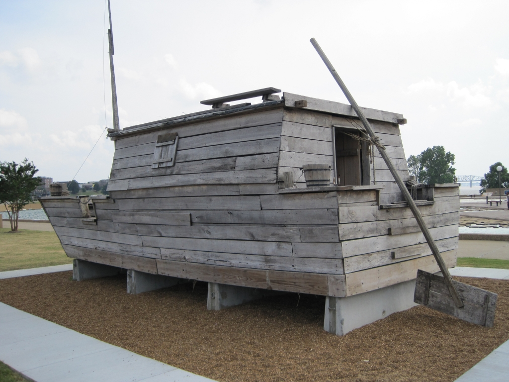 25 foot long replica of a flatboat in which Abraham Lincoln floated down the river as a young man. Replica was built 2004 and was acquired by the Mississippi Riverpark and Museum, Memphis, Tennessee in 2010. Commercial Appeal, Memphis, TN